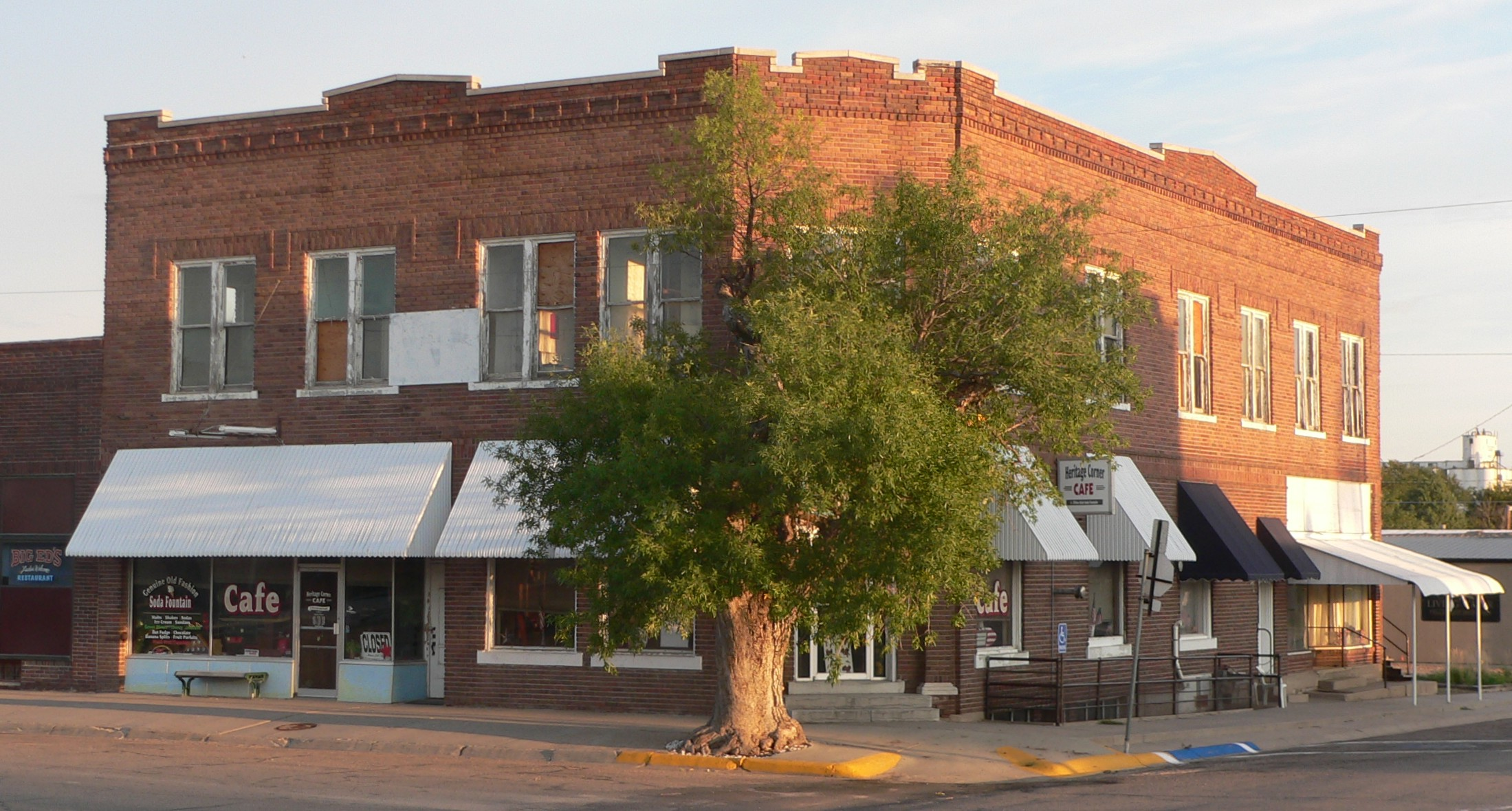 Henry Hickert building, now occupied by the Heritage Corner Cafe, in Bird City, Kansas; seen from the southeast.